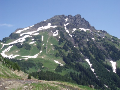 Lady Peak as seen from the valley between it and Mount Cheam